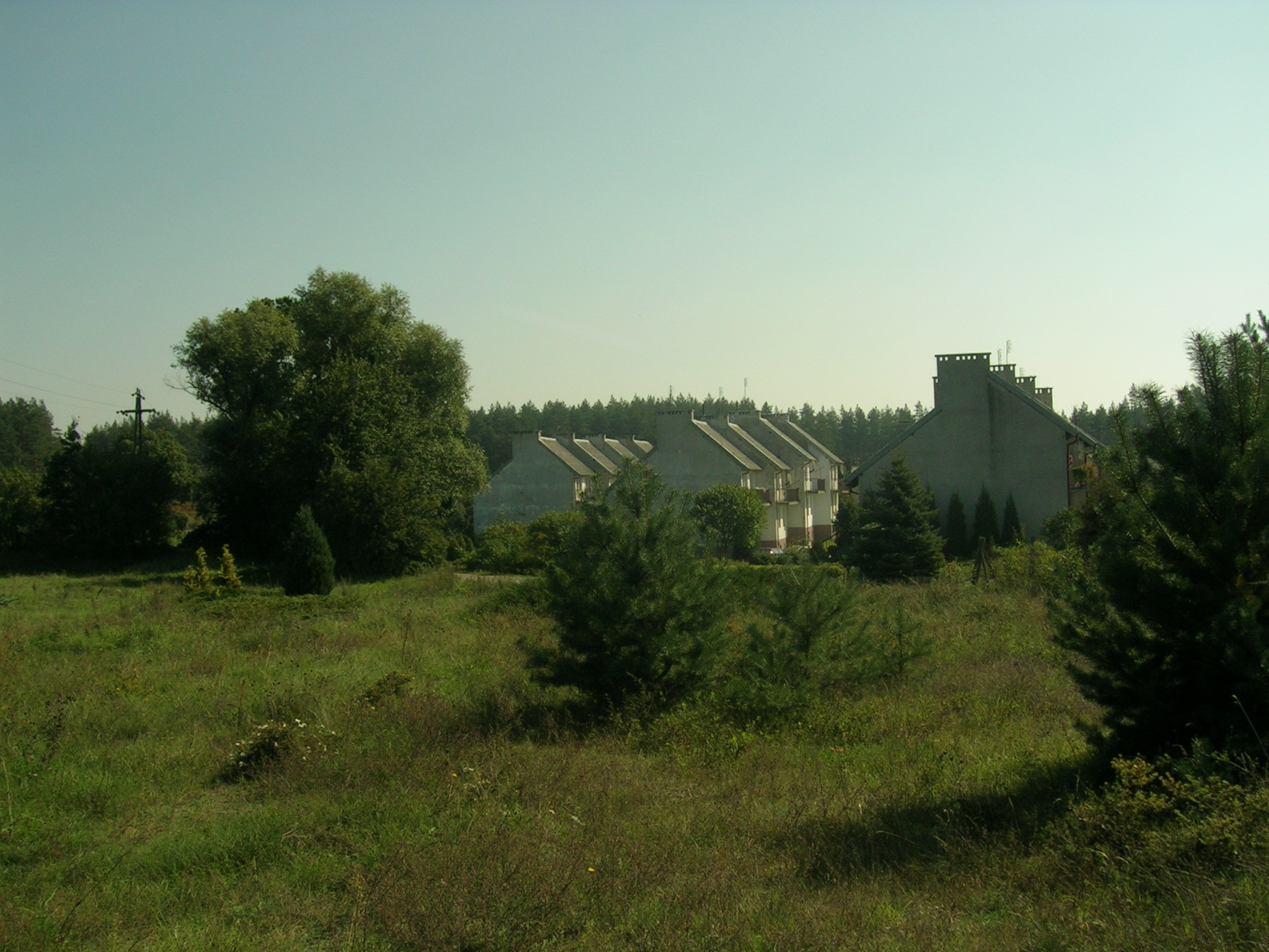 Village Wipsowo